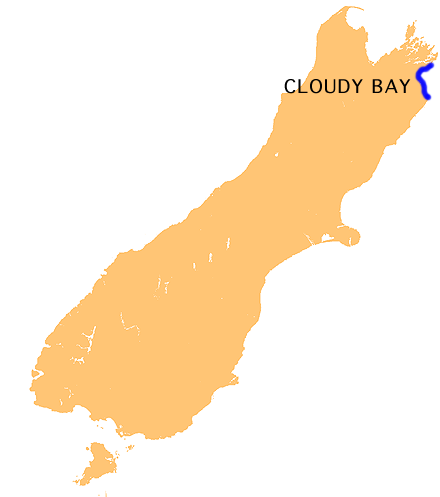 Location map of Cloudy Bay, South Island, New Zealand